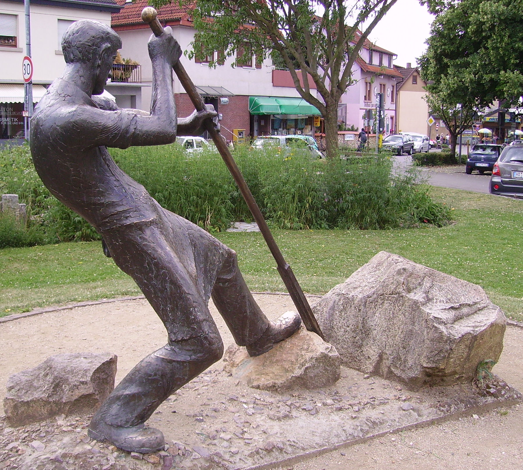 Dossenheim, Germany